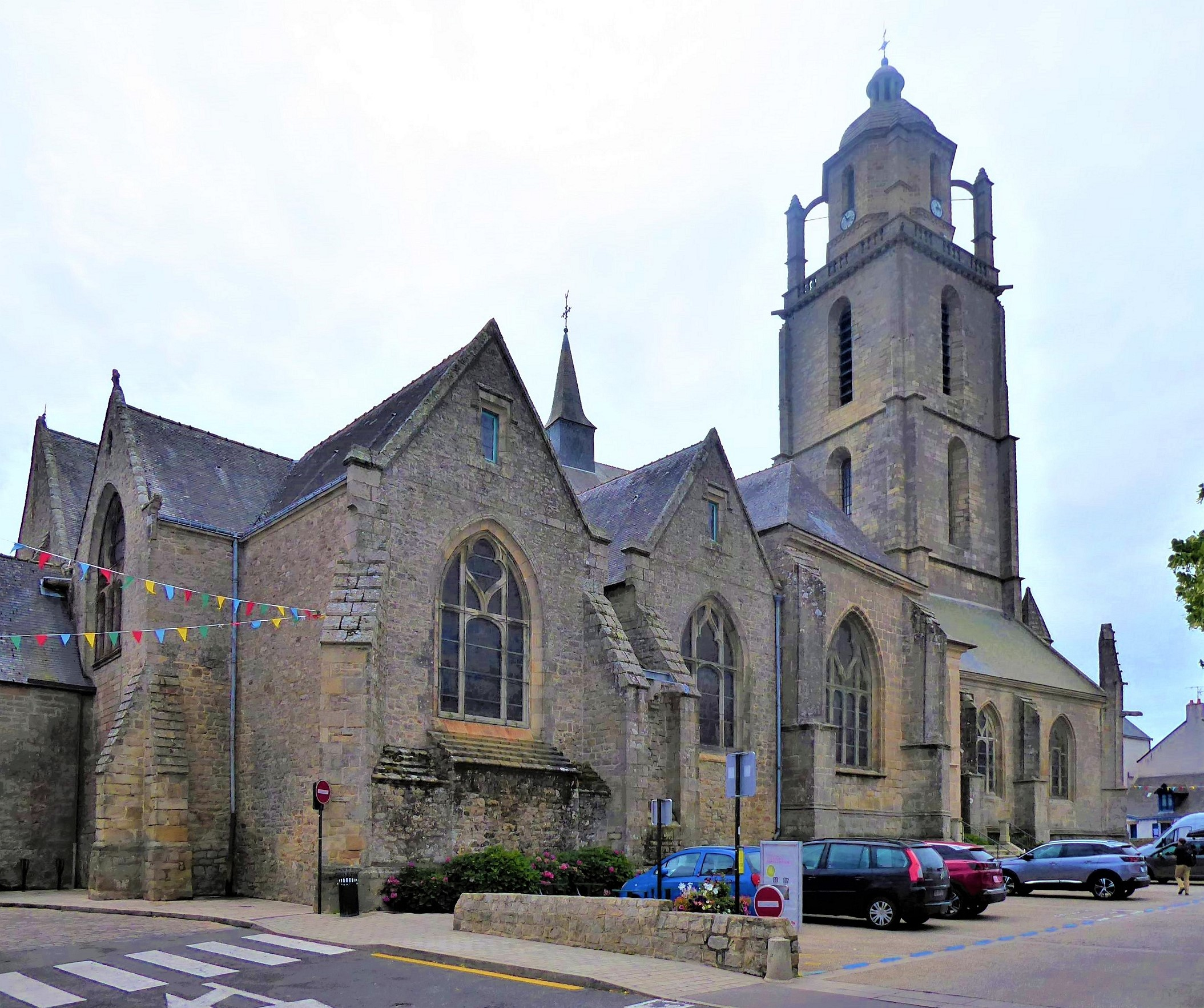 Exterior of Église Saint-Guénolé de Batz-sur-Mer